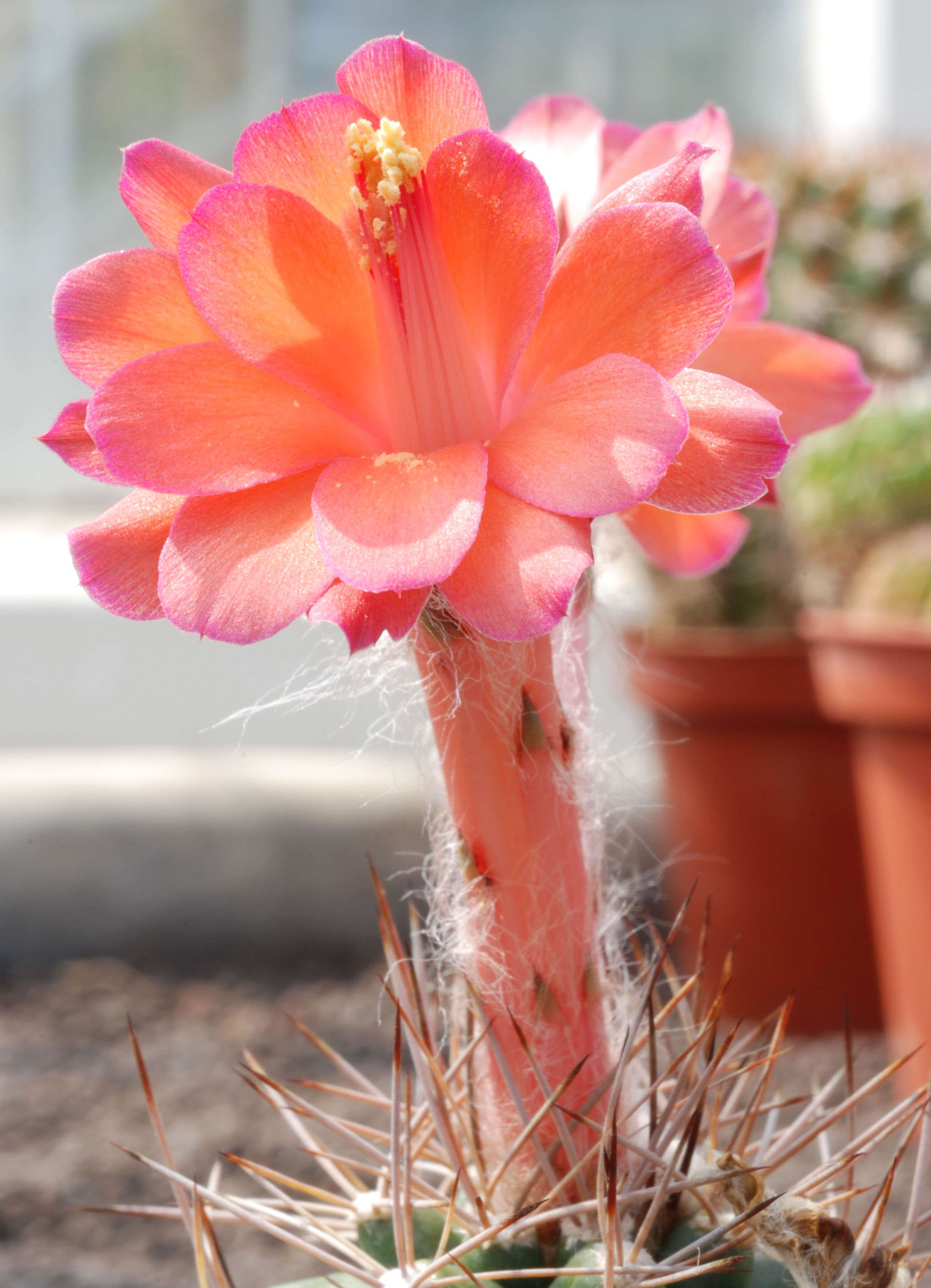 Matucana tuberculata (originally determined as Matucana paucicostata) in flower, in cultivation at the National Botanic Garden of Belgium